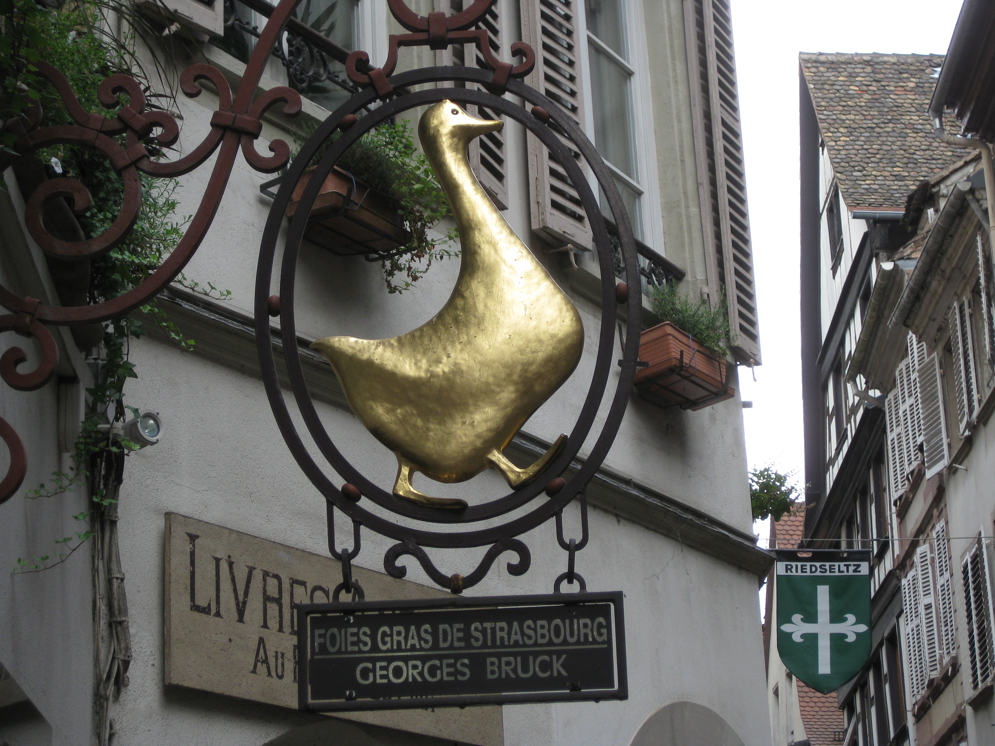 France, Alsace, Strasbourg, rue des Orfèvres: advertising foie gras at a manufacturing plant/butcher